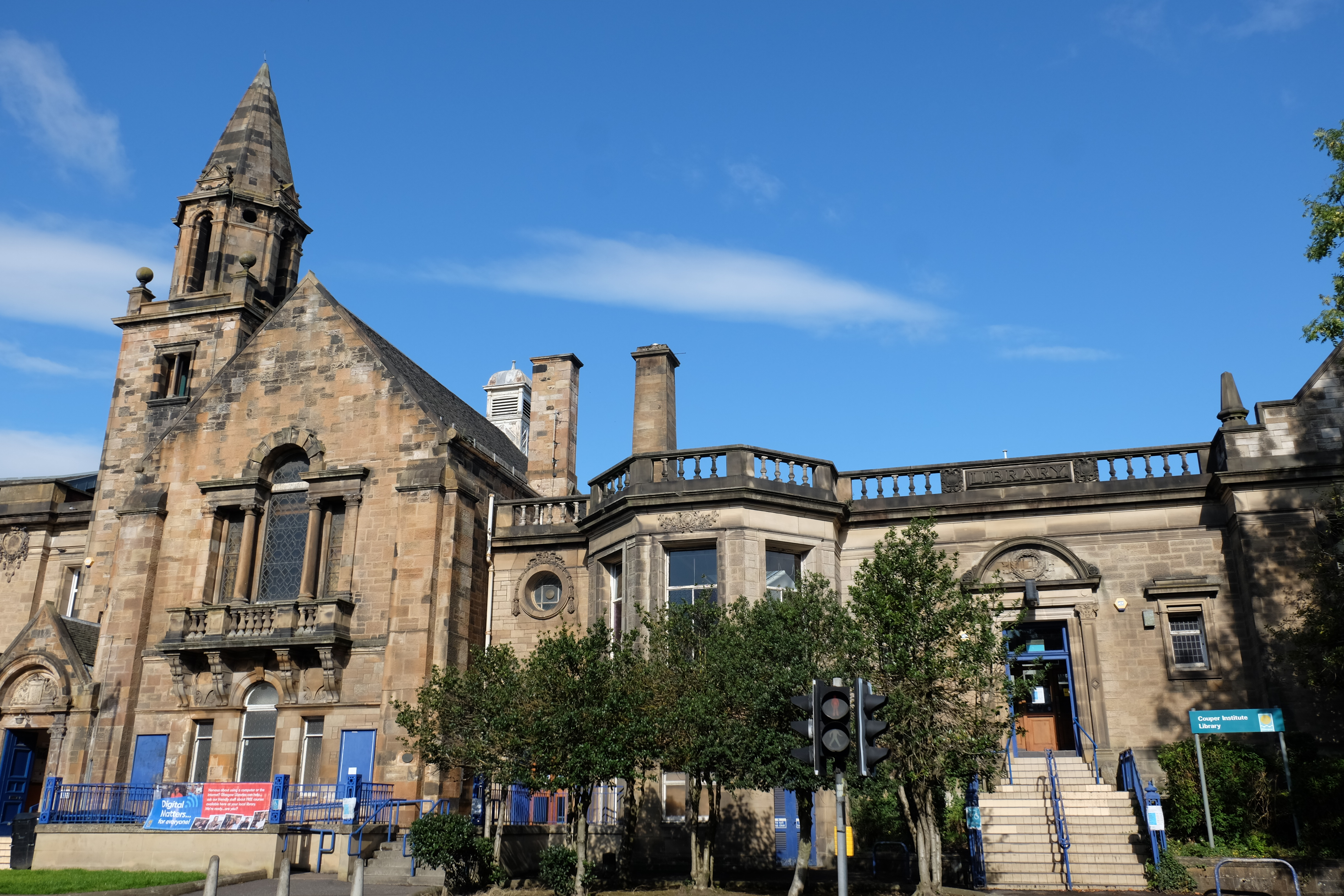 Photo of Couper Institute and Library, Cathcart, Glasgow.